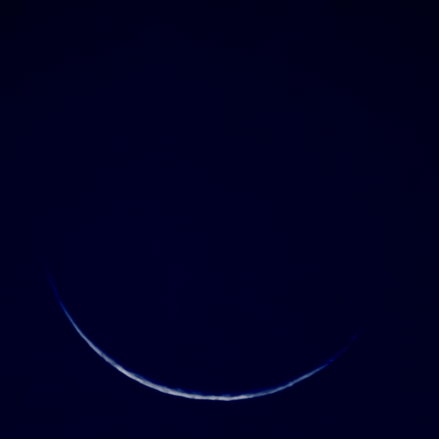 Ascendent waning crescent moon with 2.4 percent just visible area shortly before sun rise. Age of the moon was 28 days and 3.5 hours, i.e. a good one day before new moon.